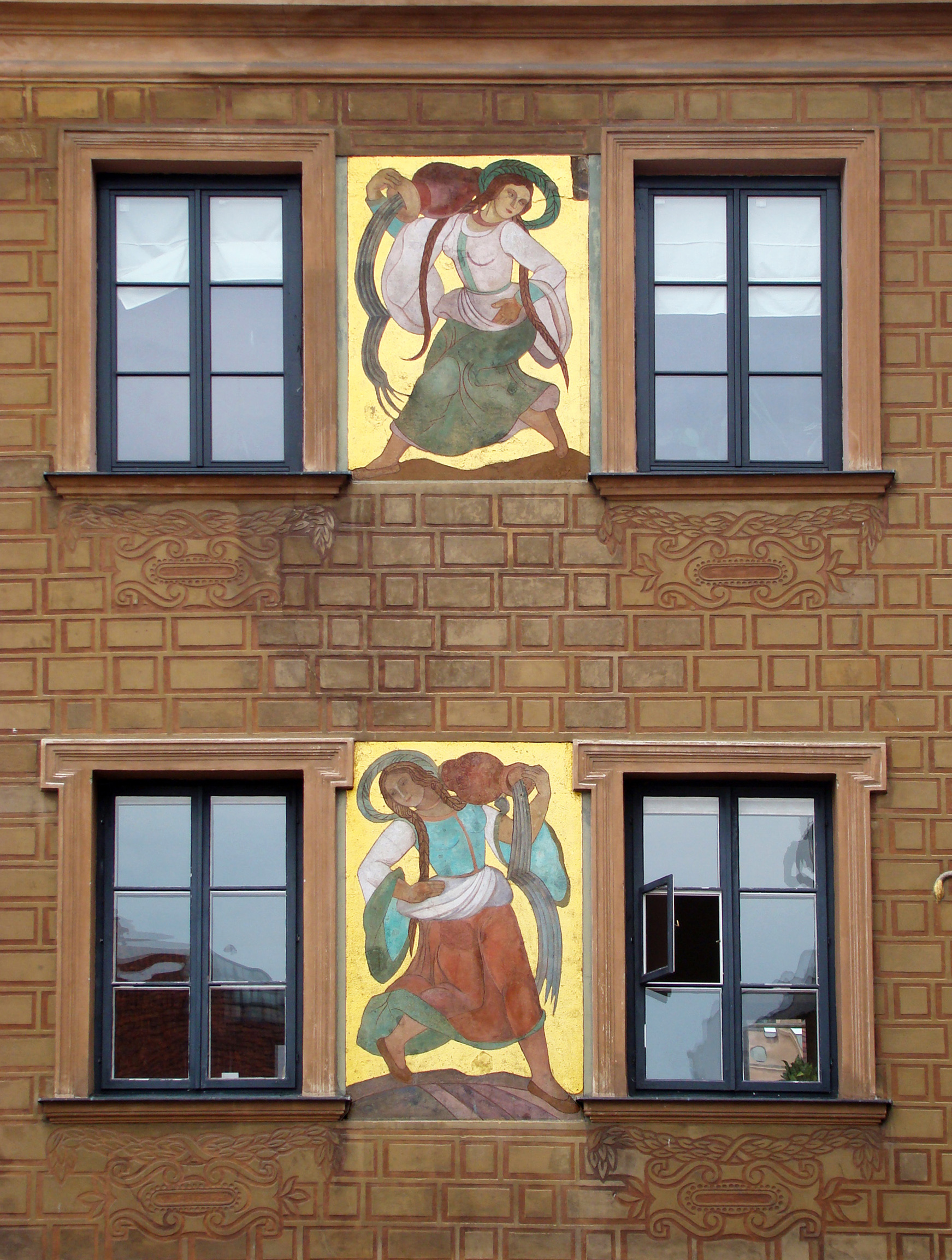 Frescoes of Zofia Stryjeńska 1928